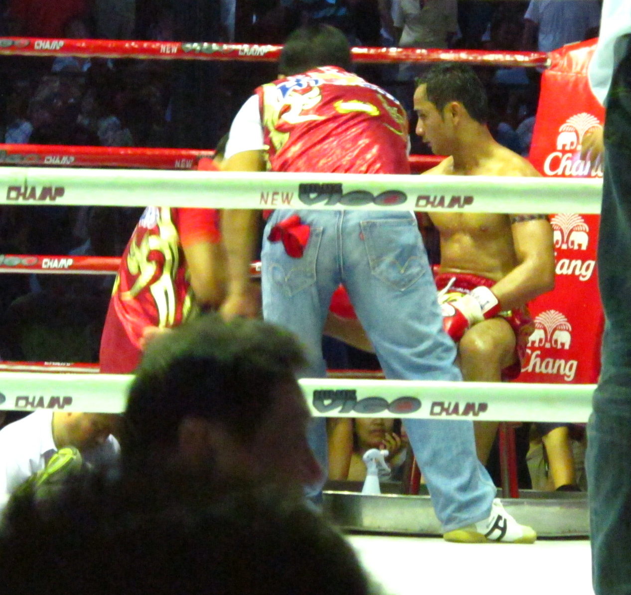 Sam-A Kaiyanghadaogym